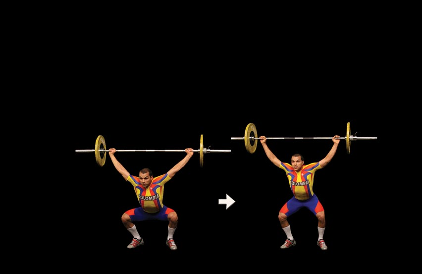 olympic weightlifting